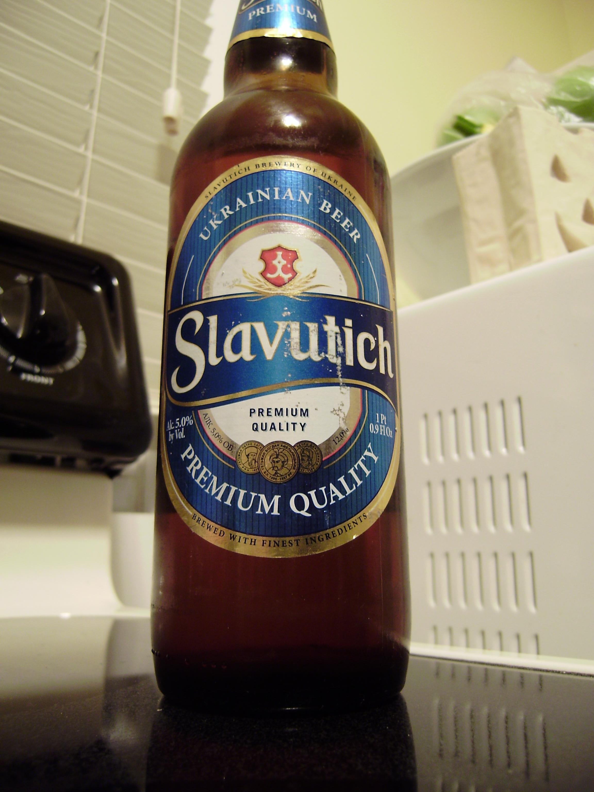 Bottle of Slavutych beer